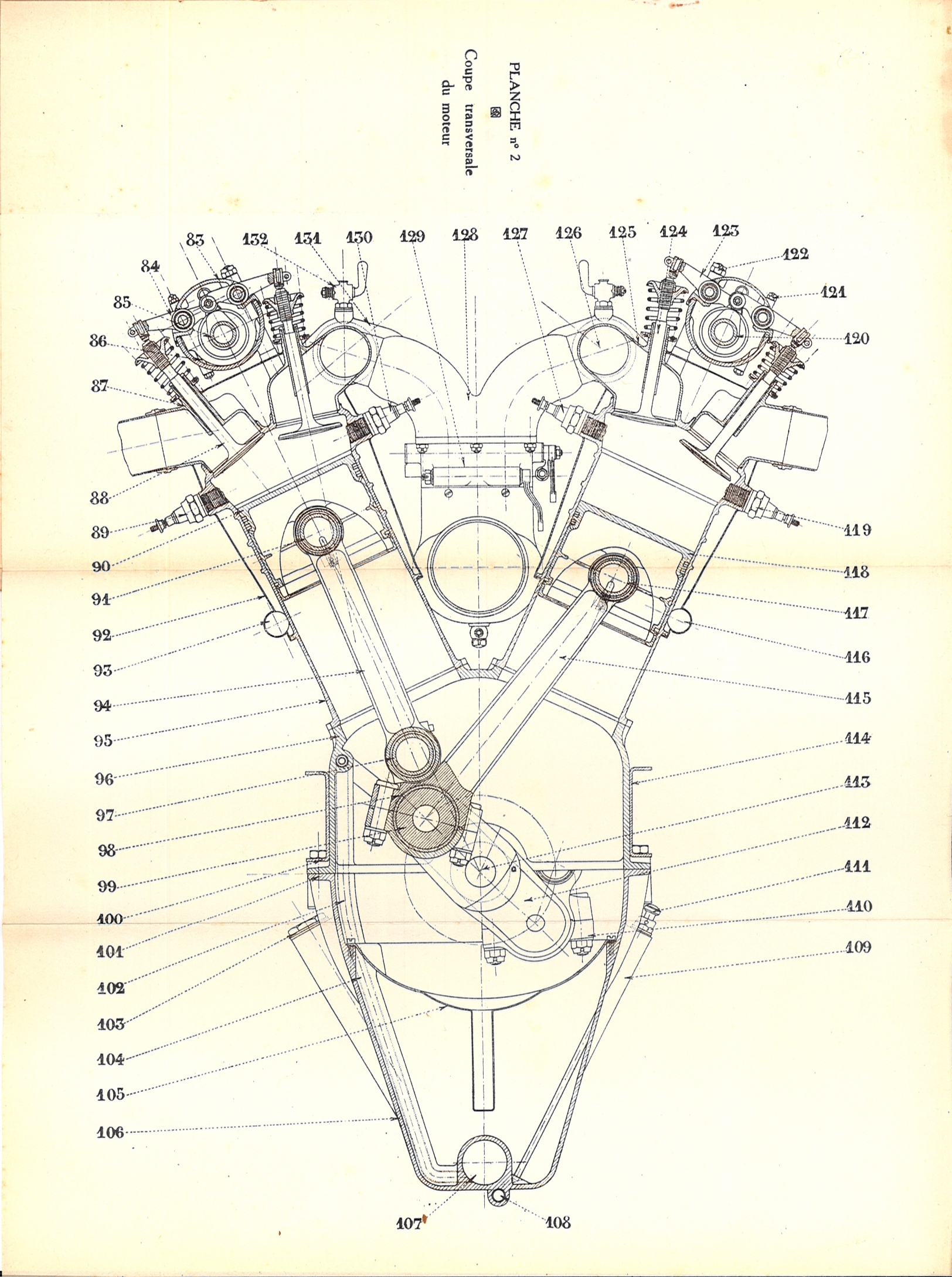 Fig. drawing 2 End sectional view Manual for the Renault 8 Bd engine See other images from this source in 'Renault 190HP aircraft engine manual'